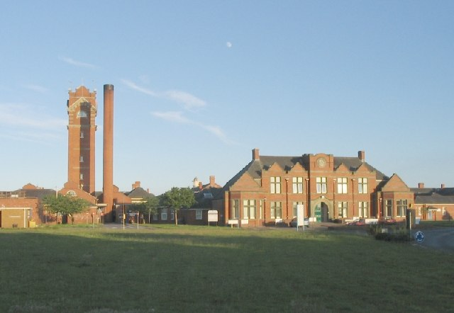 Cefn Coed Hospital. The very distinctive tower and chimney can be seen high on the sky line from all around.